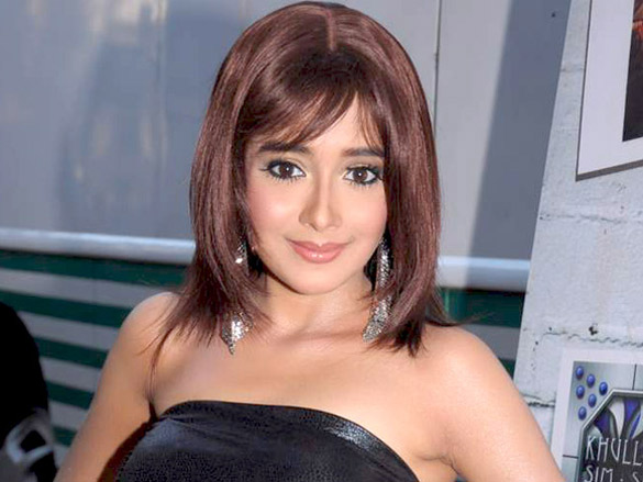 Tina dutta comedy circus